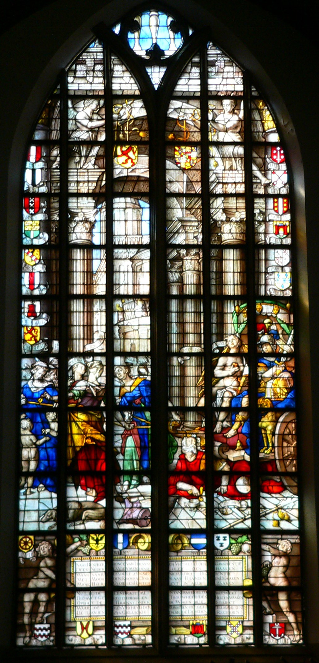 The stained-glass window number 1 in the Sint Janskerk at Gouda/Netherlands: "The triumph of Freedom of Conscience"